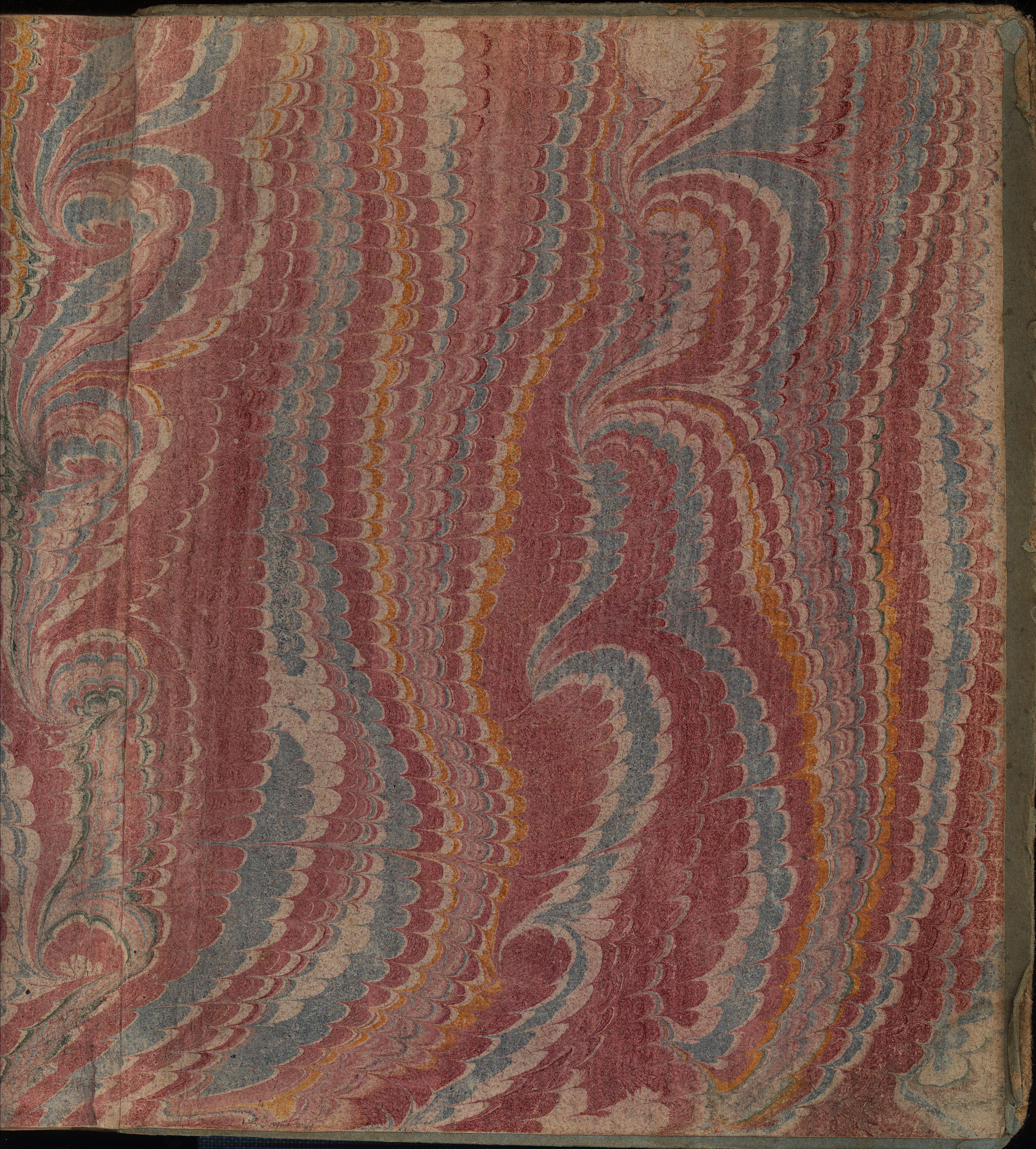 Marbled endpaper from a copy of M. Fabii Quinctiliani de institutione oratoria libri duodecim, cum notis et animadversionibus virorum doctorum, summa cura recogniti et emendati per Petrum Burmannum. Lugduni Batavorum, Apud Joannem de Vivie, MDCCXX (i.e. Quintilian’s Institutio oratoria, ed. by Pieter Burman(n) the Elder). We don’t know if the book was bound immediately after its publication, but it must have been bound before 1770, as a owner’s notice on the half-title tells us. Therefore we can date the marbled paper between 1720 and 1770. The book must have been bound either in the Netherlands or in Germany (according to another owner’s notice, the German philologist E. F. Wustemann owned the book in 1817).